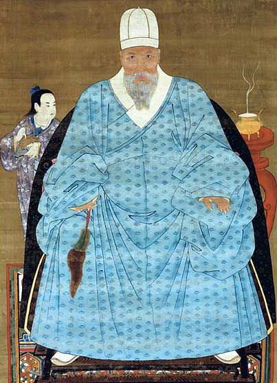 Man with a hat in Ming Dynasty